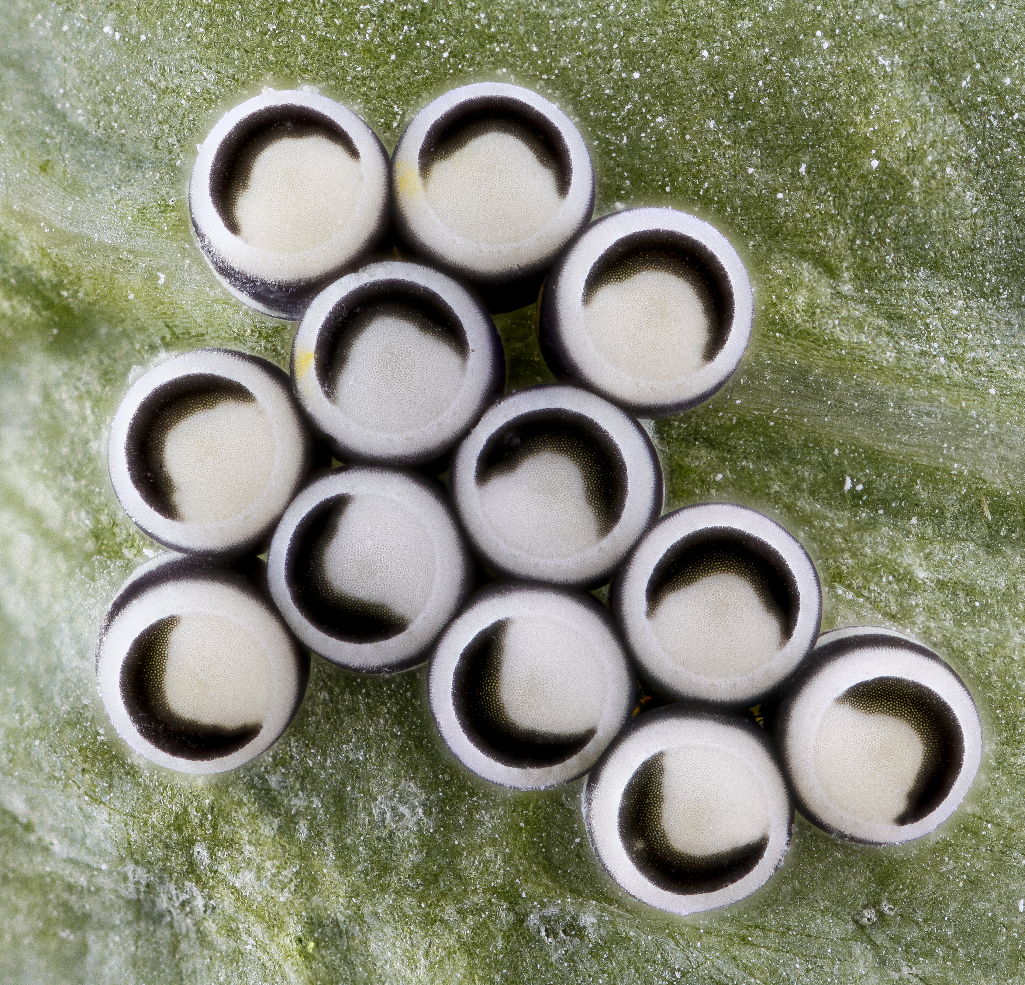 Eggs, Harlequin beetle, Murgantia histrionica, a common pest of brassicas, these were raised by the Weber USDA lab at Beltsville, Maryland